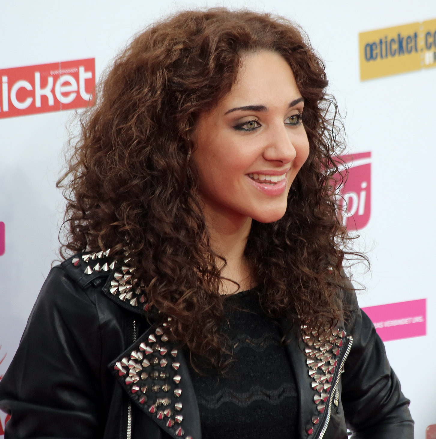 Natália Kelly at the Amadeus Austrian Music Award at Volkstheater in Vienna